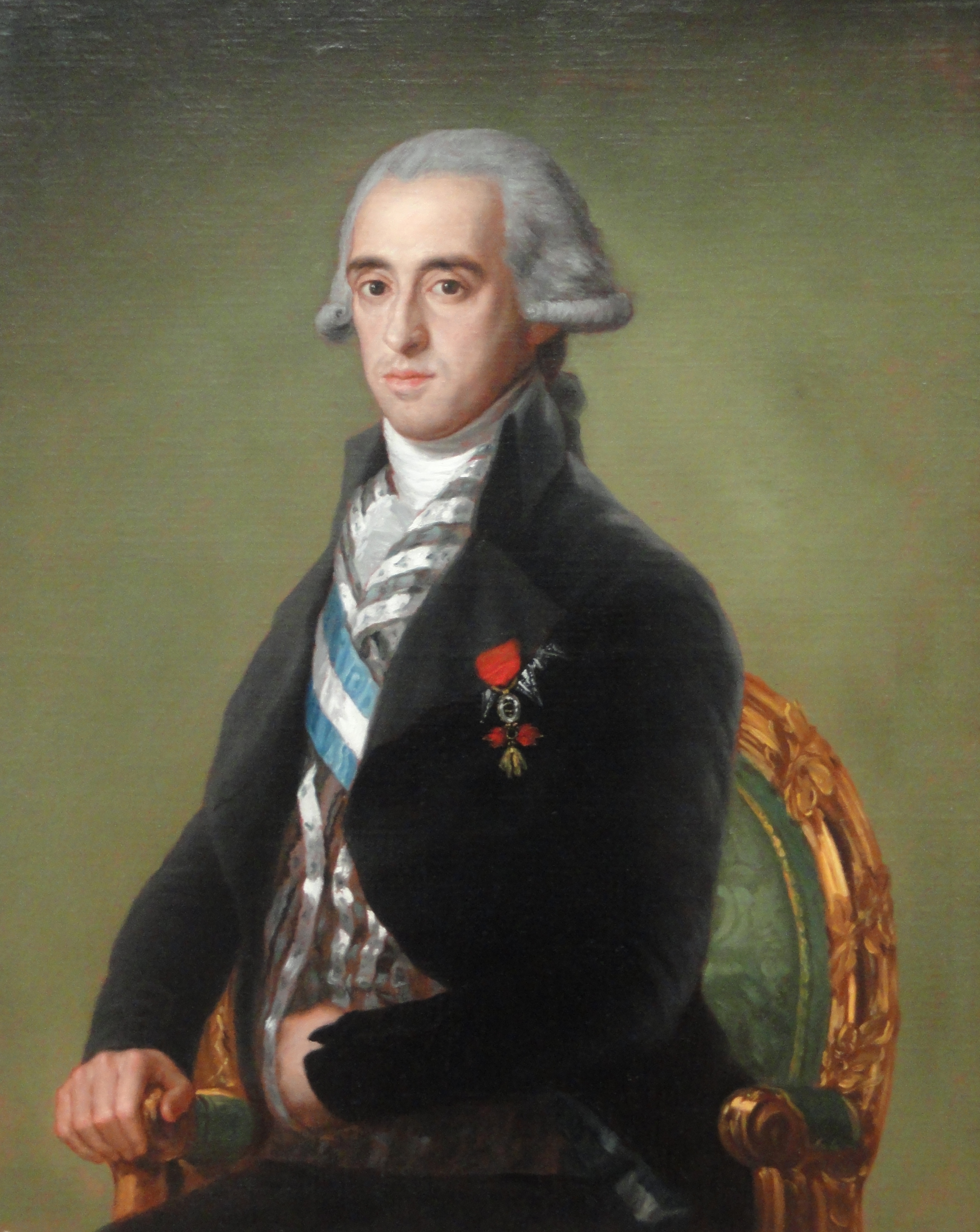 Exhibit in the Art Institute of Chicago, Chicago, Illinois, USA. This artwork is in the public domain because the artist died more than 70 years ago.